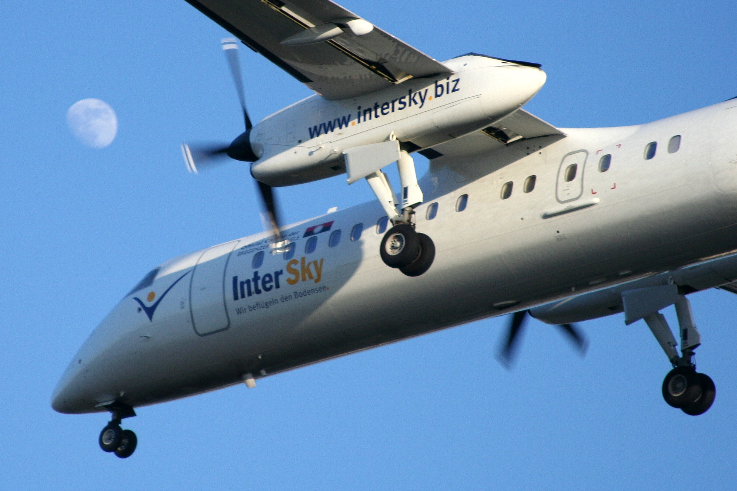 Shot from the S-Bahn Station Berlin Tempelhof which is close to the runway of the old city airport Berlin Tempelhof (THF). The airport is nowerdays only used for small and silent airplanes like this one and will be closed some time in the future.